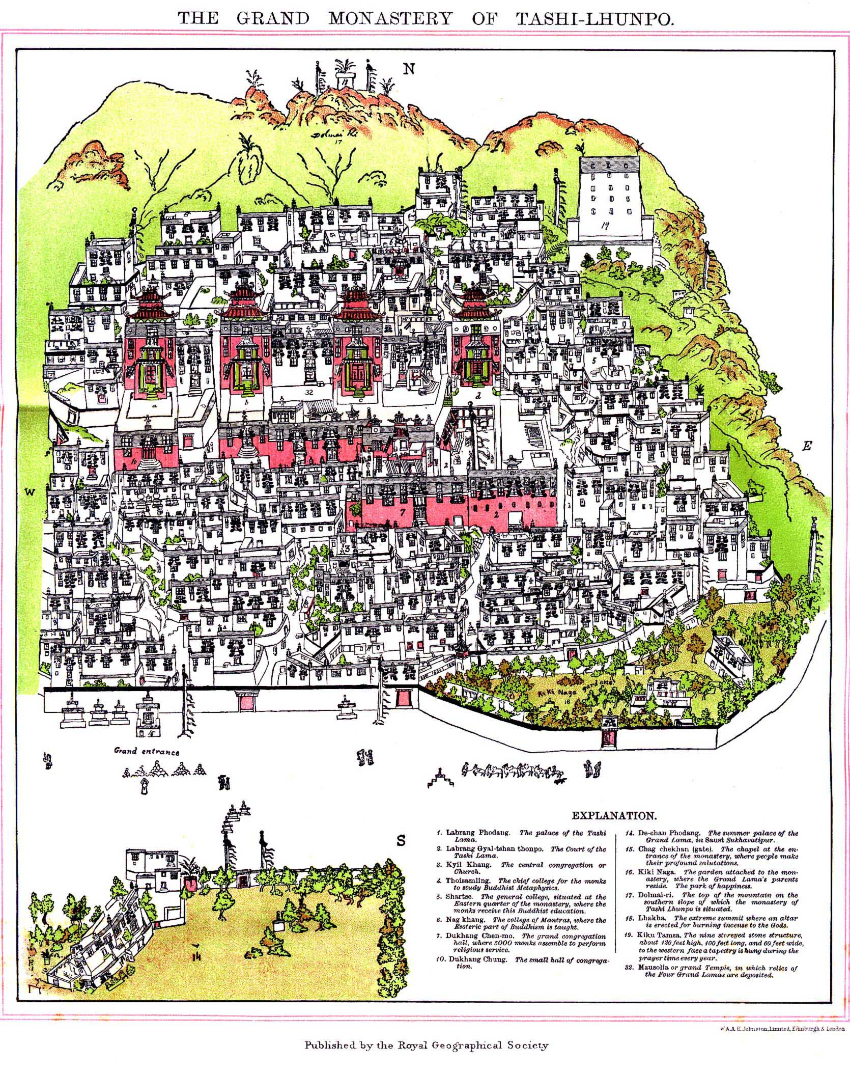 The Tashilhunpo from Journey to Lhasa and Central Tibet by Sarat Chandra Das, 1902.